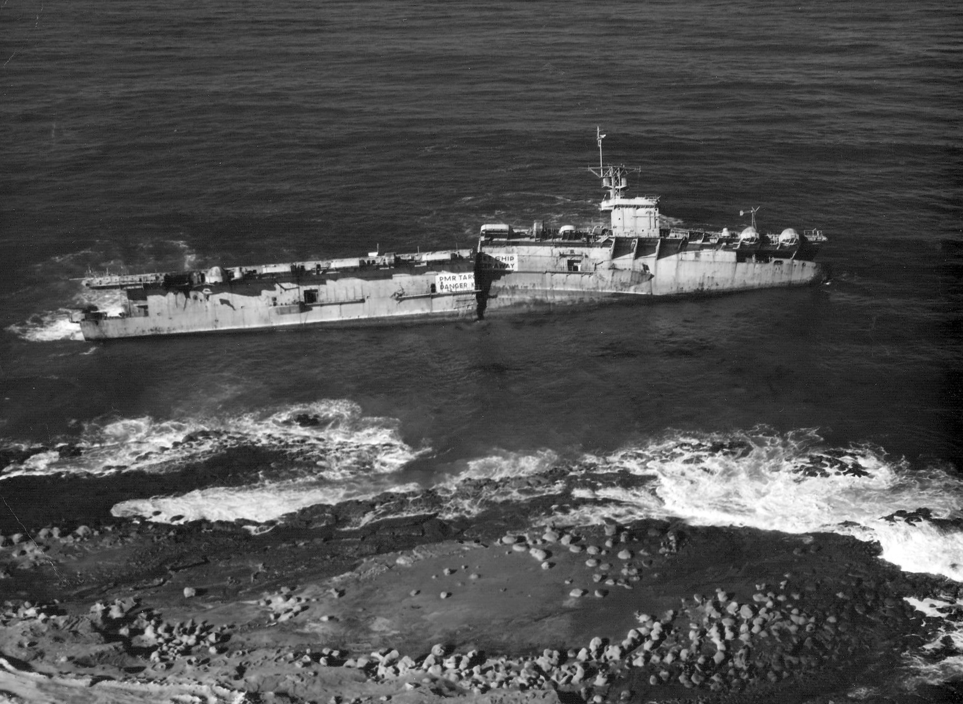 The U.S. Navy escort carrier USS Makassar Strait (CVE-91) aground on San Nicholas Island, California (USA). On 28 August 1958 the Secretary of the Navy had authorized that she was to be used as target for destruction. Her name was struck from the Navy list 1 September 1958. In April 1961, while under tow to San Clemente Island, California (USA), she ran aground on San Nicholas Island, and was then sold for breaking up in situ on 2 May 1961. As late as Fall 1965, the ship had not been broken up, and was still being used as a target.